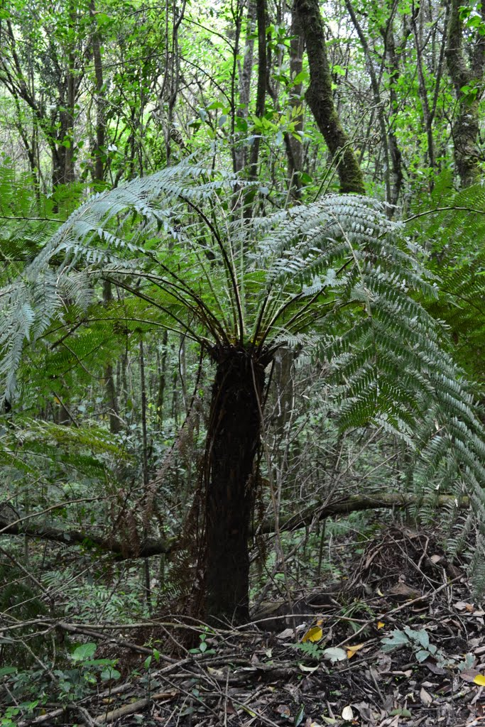 Dicksonia sellowiana, or fern, photographed in Brazil, Rio Grande do Sul.